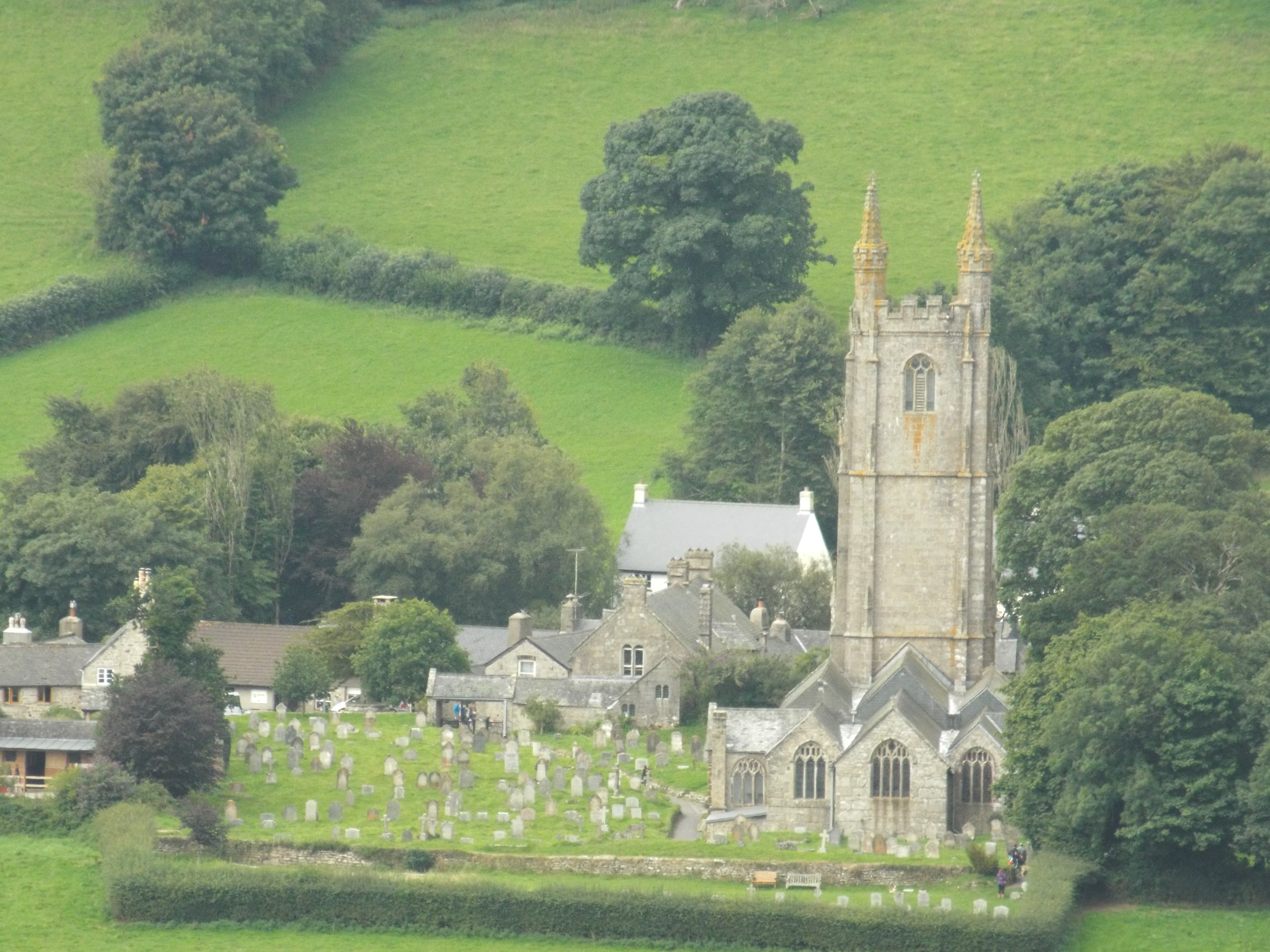 The Church in the centre of Widecombe-in-the-Moor, Dartmoor, Devon.